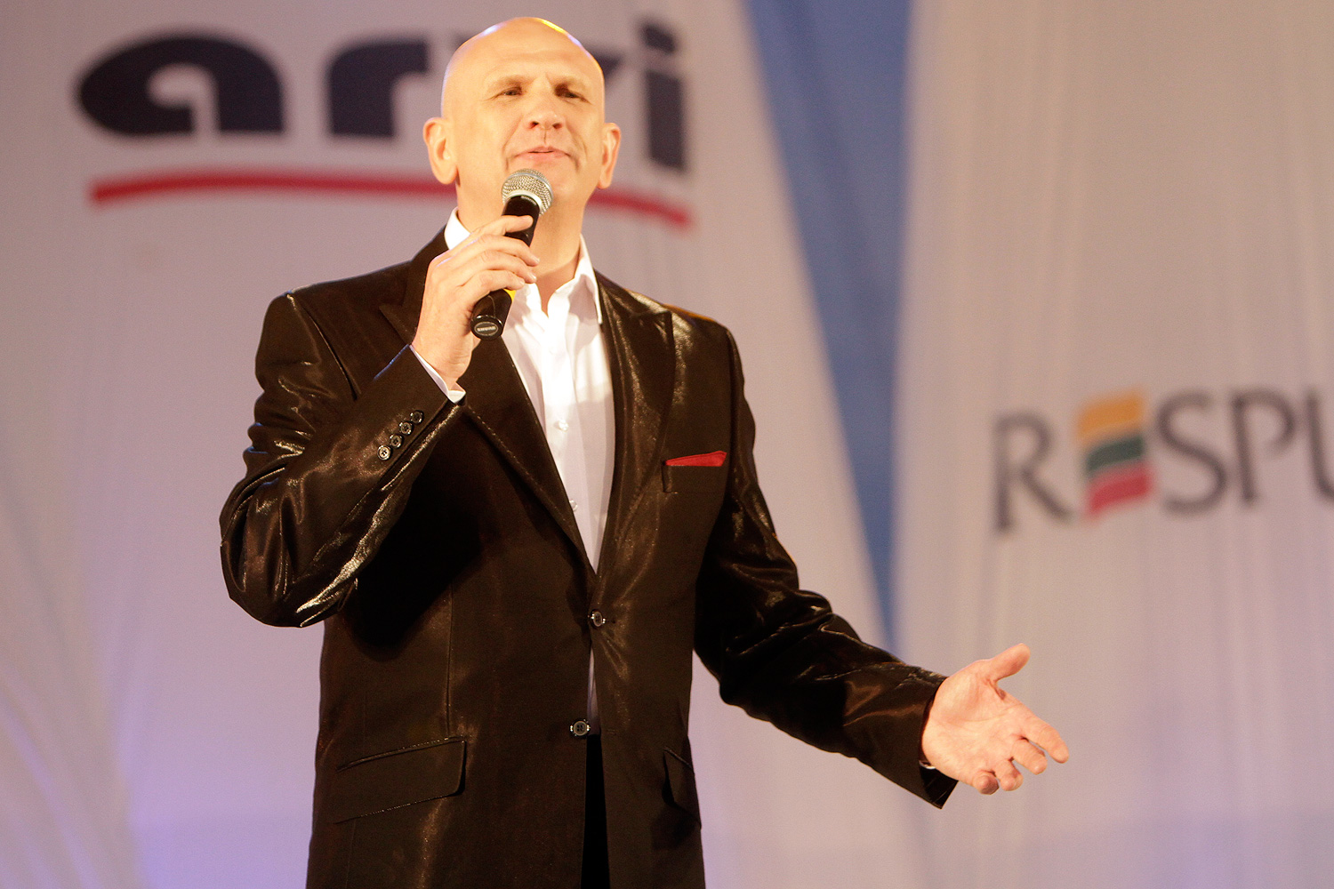 Singer Edmundas Kučinskas